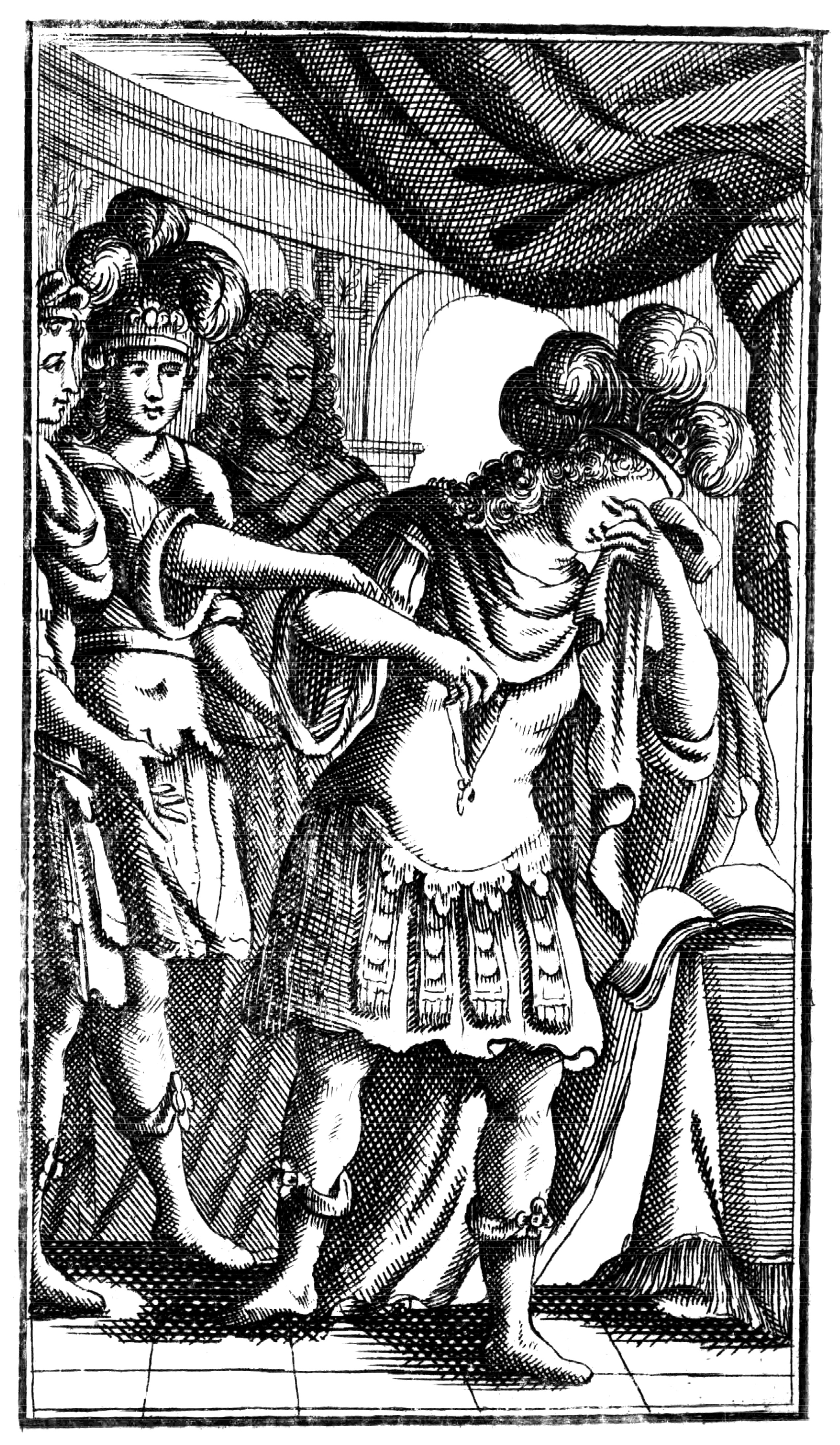 Antonio Vivaldi - Catone in Utica - picture of the libretto - Venice 1737